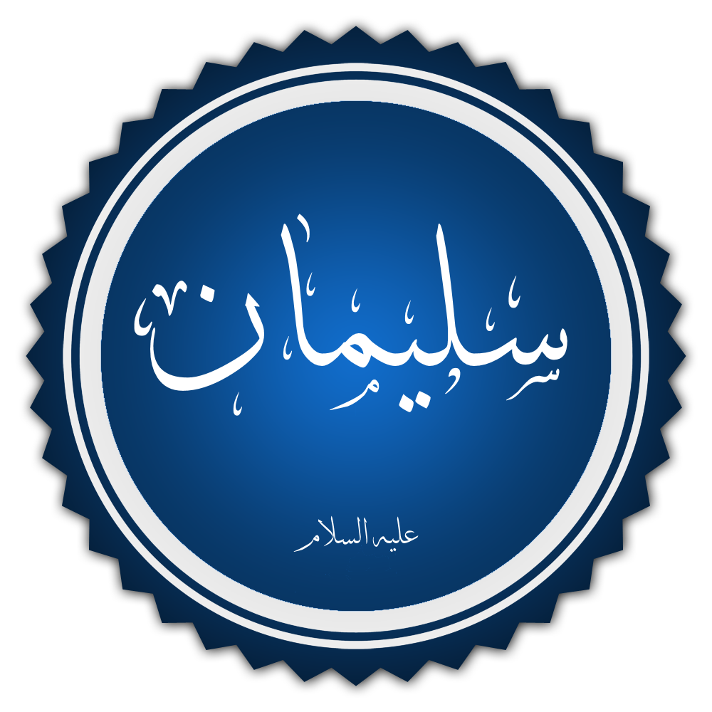 Solomon Islamic calligraphy